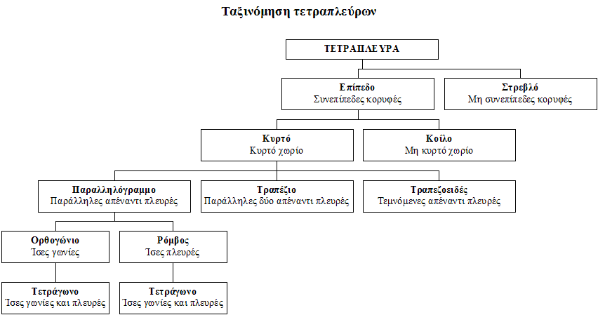 Quadrilaterals taxonomy